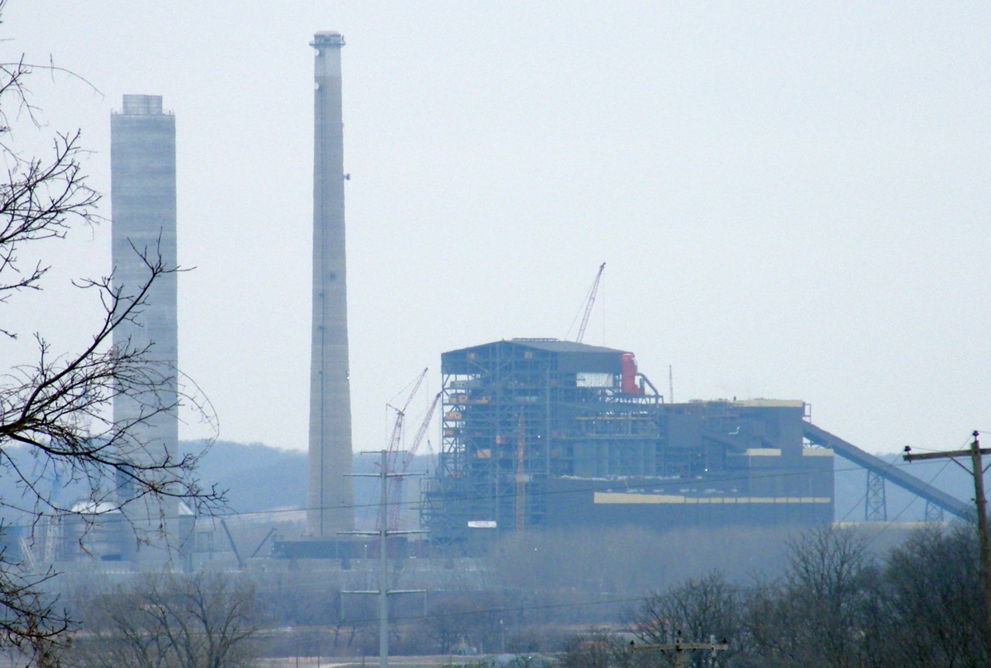 Iatan Power Plant in 2009